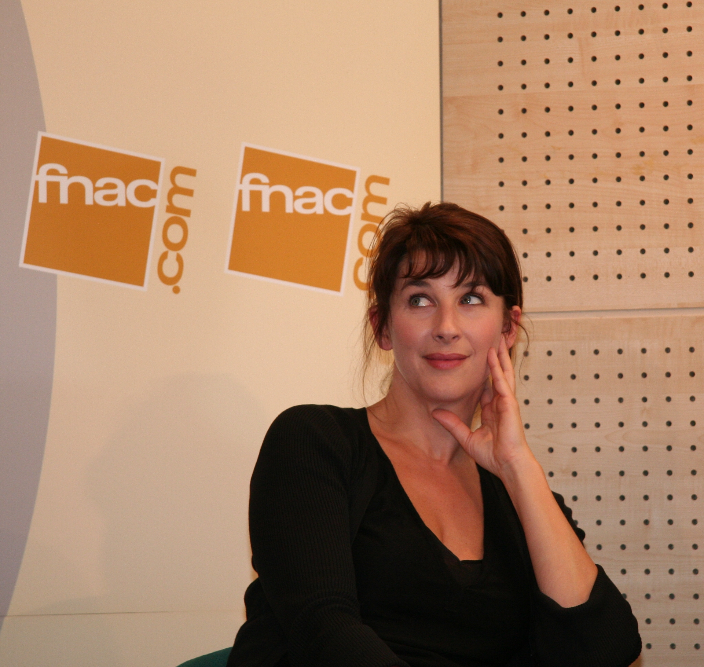 Rendezvous with Jacques Weber, Jean-Claude Houdinière, Isabelle Gélinas and Michel Vuillermoz at Fnac Saint-Lazare (Paris, France).